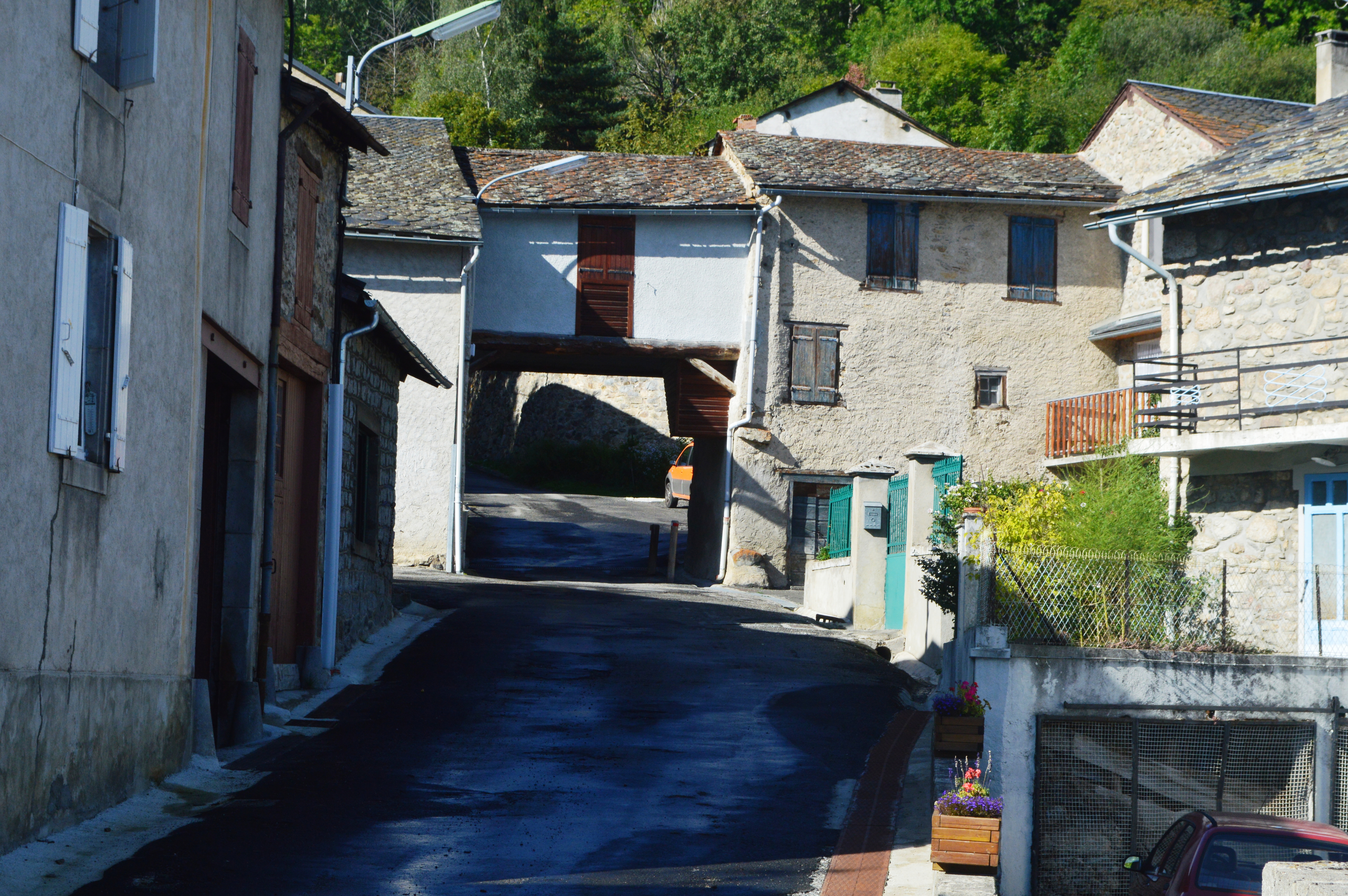 A Street View